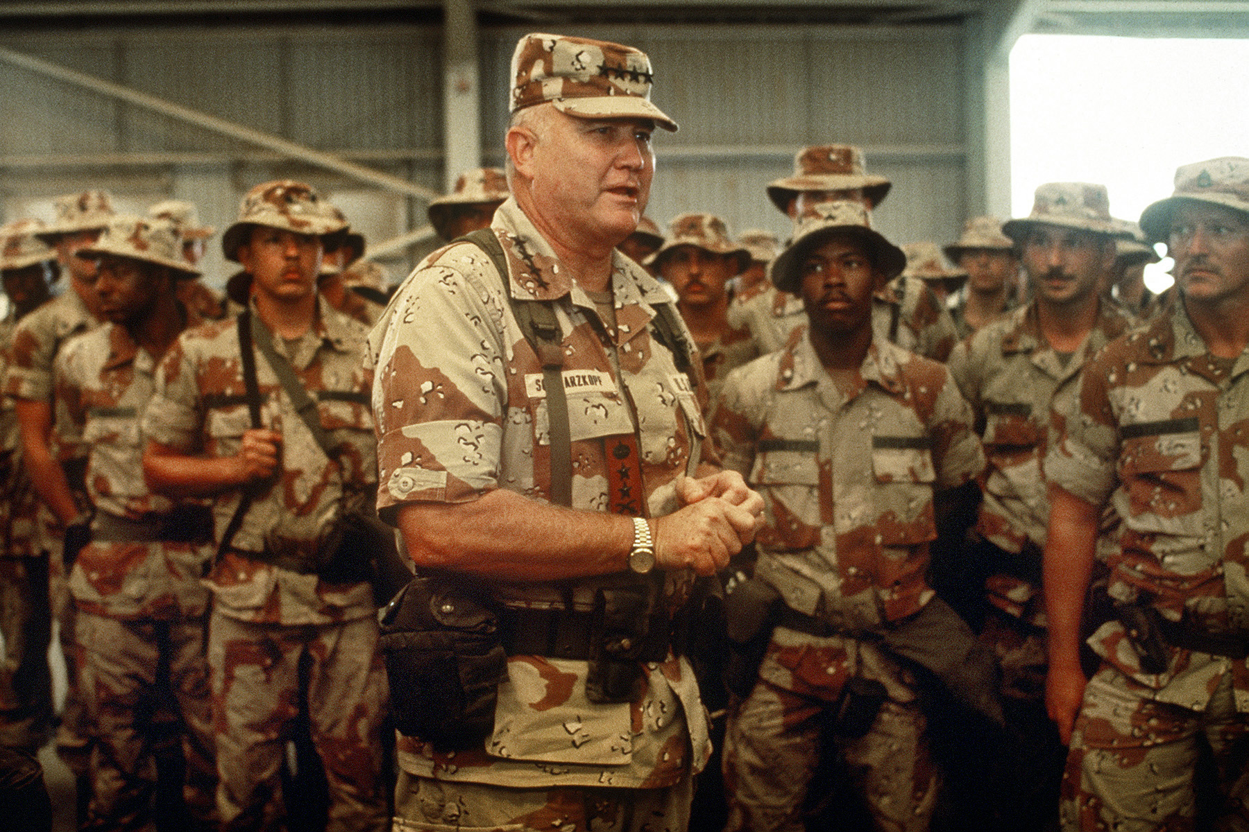 U.S. Army Gen. Norman H. Schwarzkopf, commander of U.S. Central Command, speaks to U.S. soldiers inside a hangar while visiting a base camp during Operation Desert Shield, April 1, 1992.